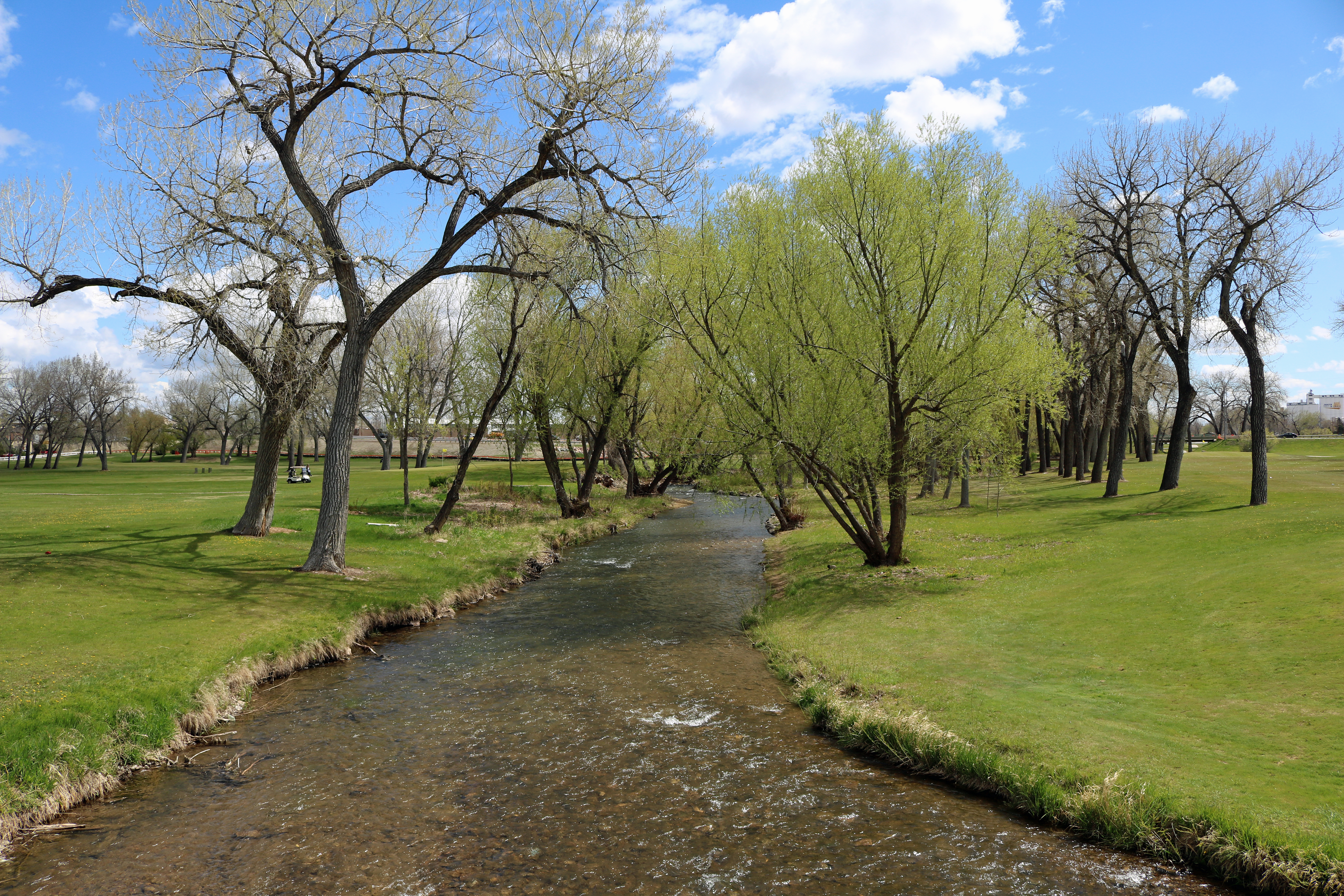 Rapid Creek in Rapid City, South Dakota. The view is in Founders Park, on the north side of Rapid City's downtown, and includes part of Executive Golf Course.